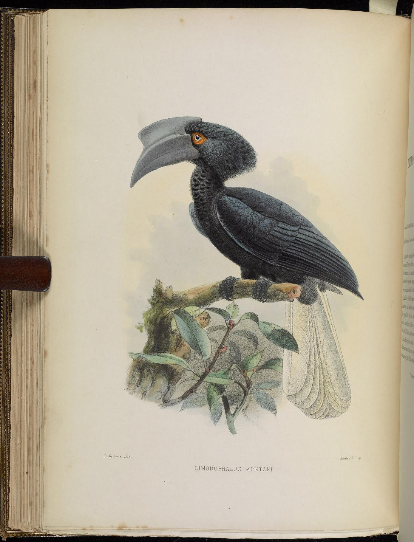 Anthracoceros montani (Oustalet, 1880) Plate from "A monograph of the Bucerotidæ, or family of the hornbills".